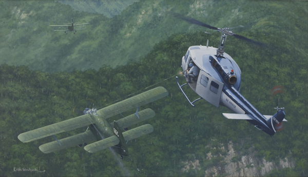 Painting of an Air America Bell 205 helicopter engaging two Vietnam People's Air Force Antonov An-2 biplanes dropping 120 mm mortar rounds on Lima Site 85, Laos,12 January 1968